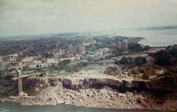 Photo and info from English Wikipedia. This photo shows the American Falls and Bridalveil Falls in Niagara Falls during the preservation work carried out in 1969.